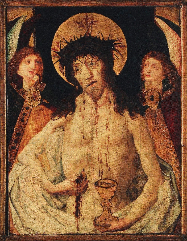 Man of Sorrows from the main Prague Utraquist Church of Our Lady before Teyn. It is one of the crucial artistic works of the Bohemian Reformation of the 15th century. Christ in agony with the crown of thorns touches the wound in his left flank, from which he takes a host (the Lord's body) while the blood from his wounds flows into a chalice. It emphasizes the Eucharistic significance of Christ's redeeming sacrifice. The chalice - symbol of the Hussites - clearly demonstrates the practice of the Bohemian Reformation to receive the Holy Communion under both kinds (not only bread but also wine).